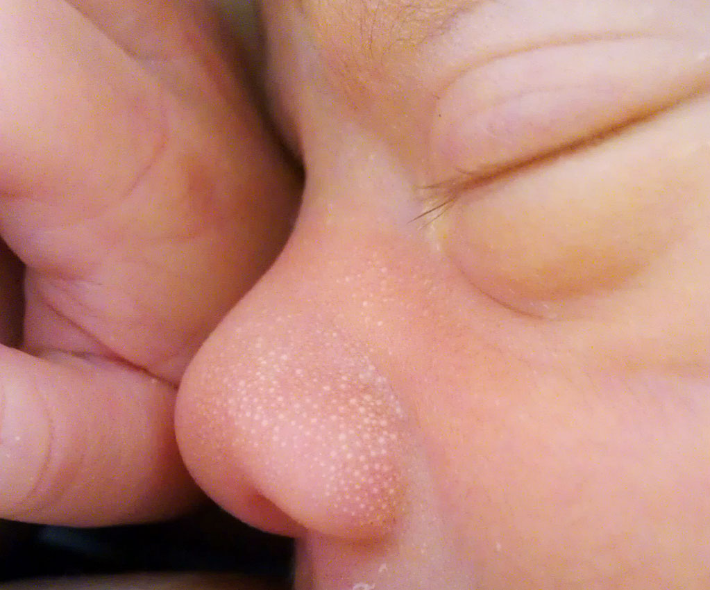 Milk spots (milia) on the nose of a 1-week old infant.